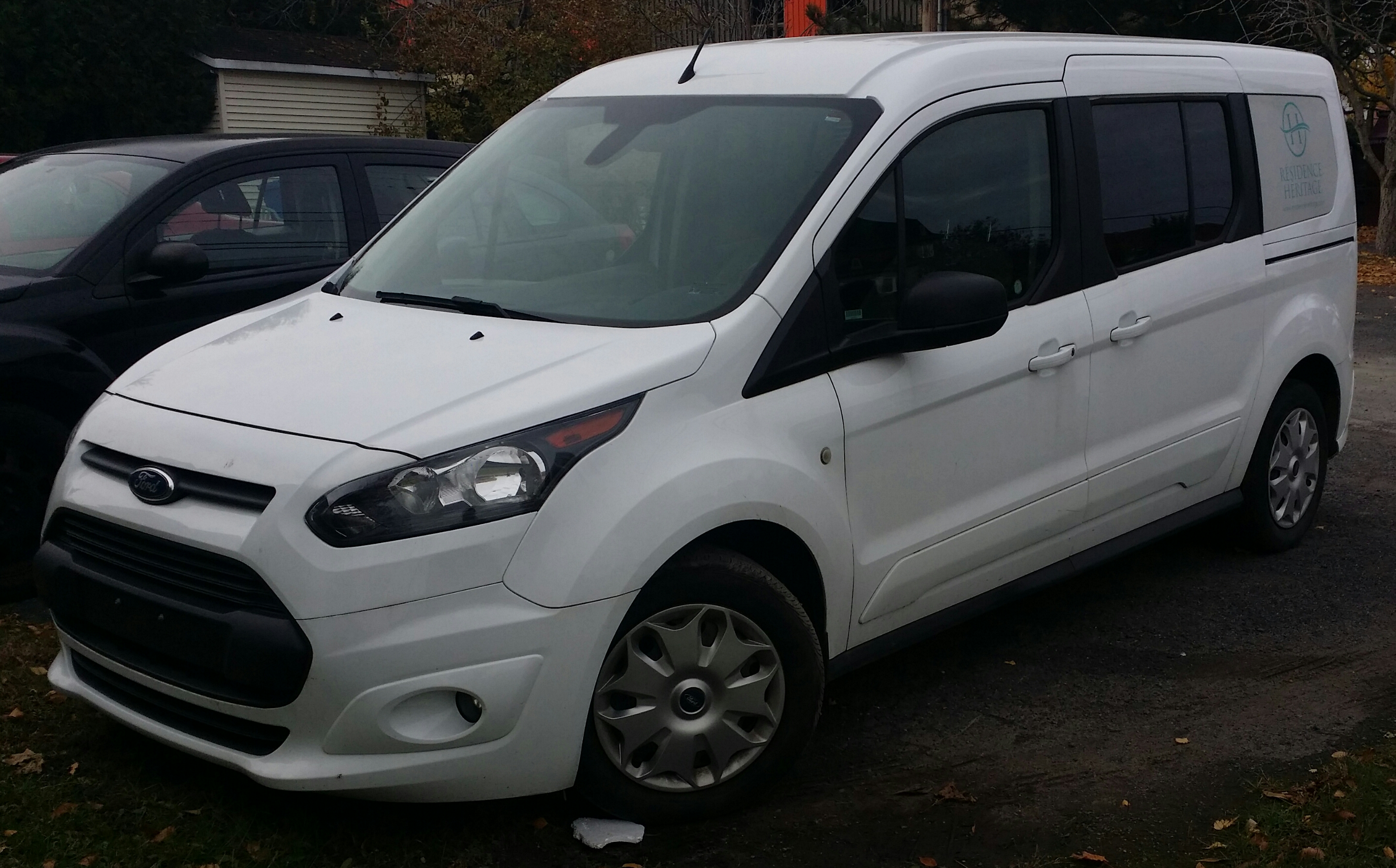 Ford Transit Connect photographed in Longueuil, Quebec, Canada.